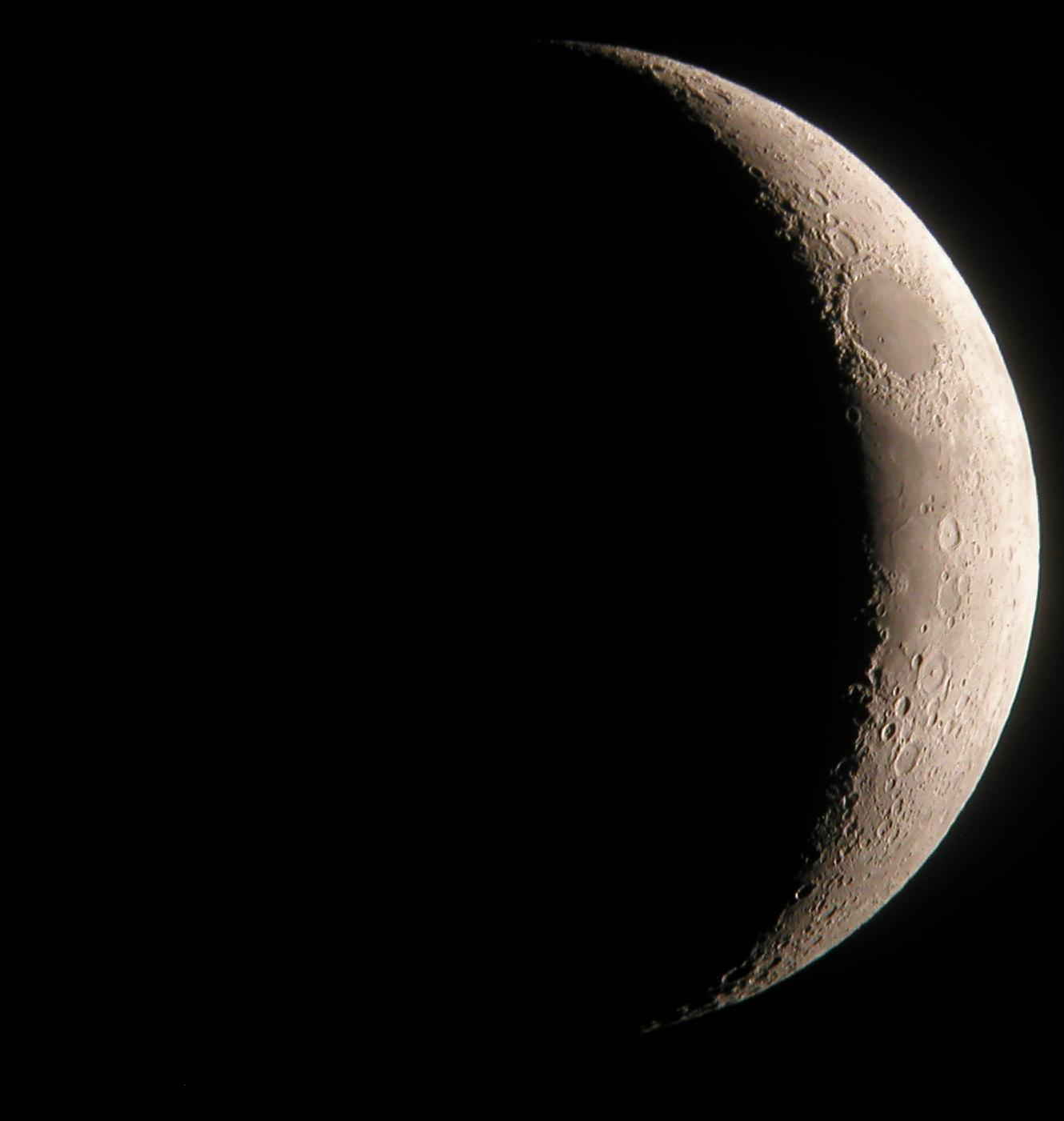 The Moon.